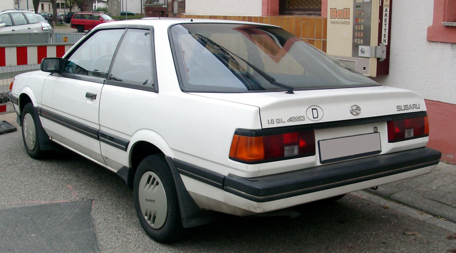 Subaru 1.8 GL Coupé - European market third generation Subaru Leone